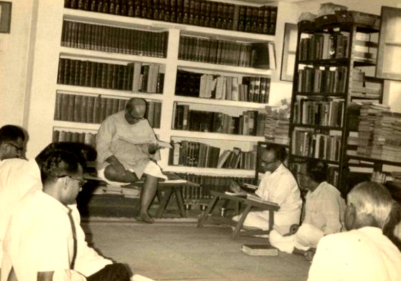 S. R. Ramaswamy with D. V. Gundappa taking dictation